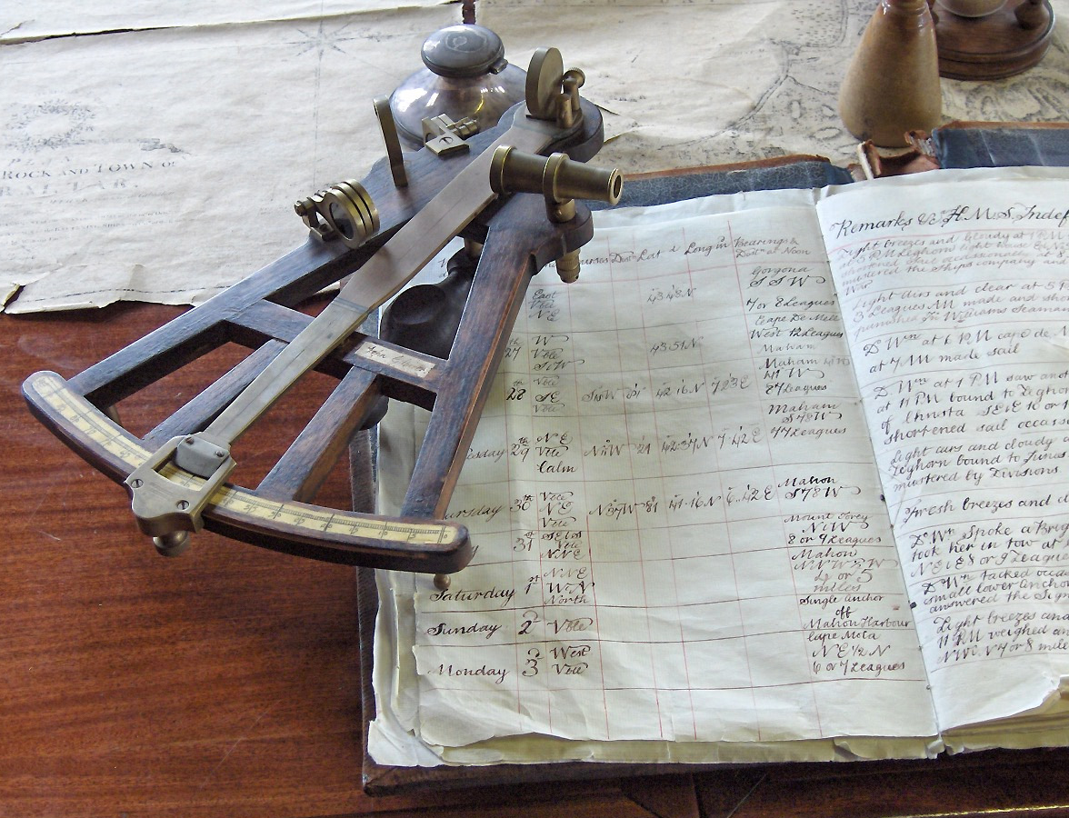 Grand Turk, a replica of a three-masted 6th rate frigate from Nelson's days - sextant and logbook (note: device shown is actually an octant.)